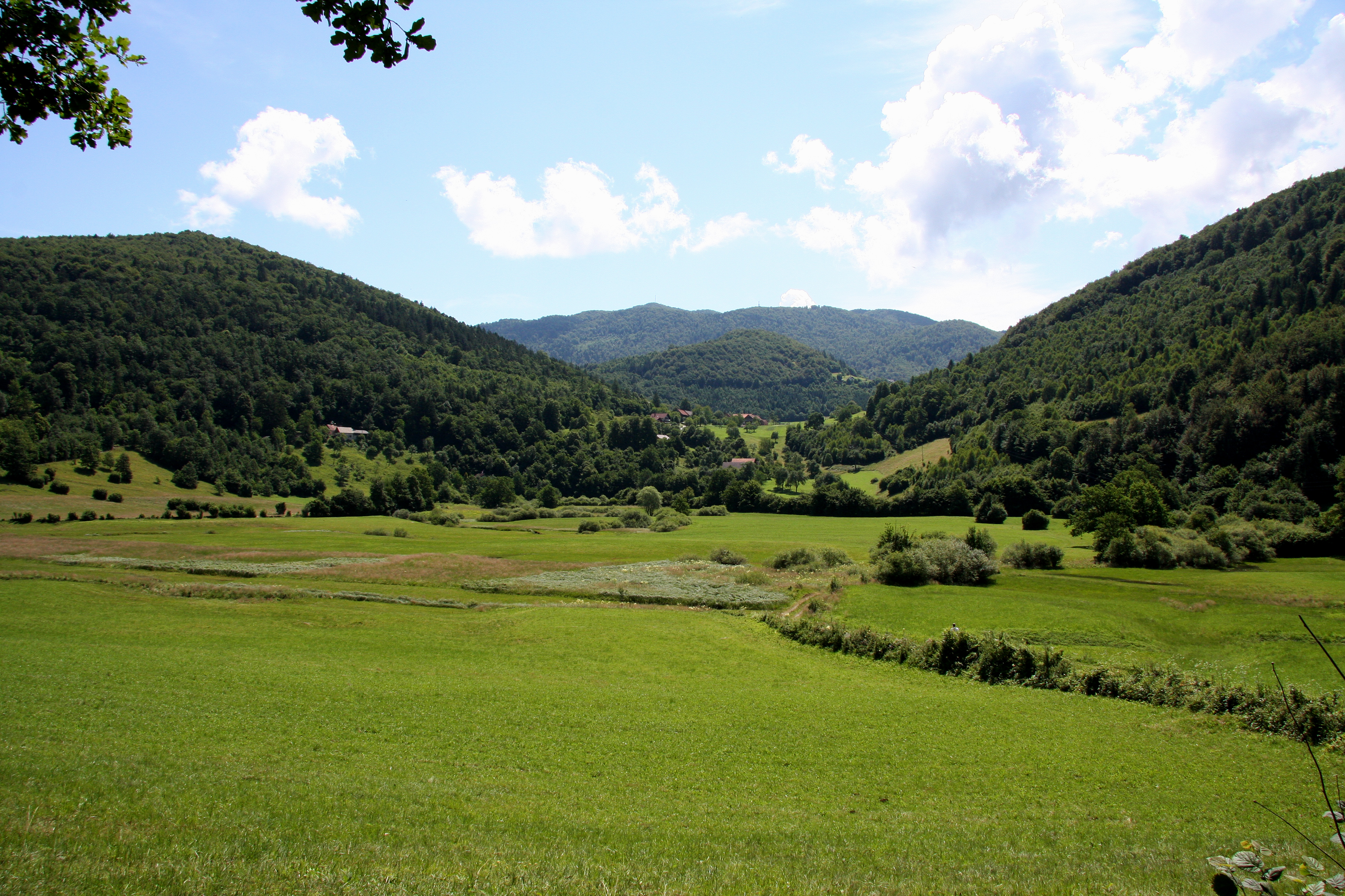 Uvala Ponikve, similar to a small polje, near the village of Dolenja Brezovica, Municipality of Brezovica, Slovenia.